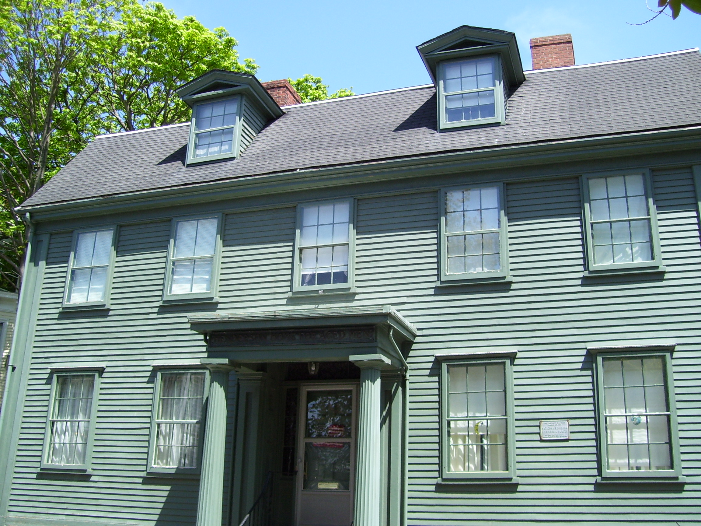 Ezra Stiles House — in Newport, Rhode Island. My photo from 2008.